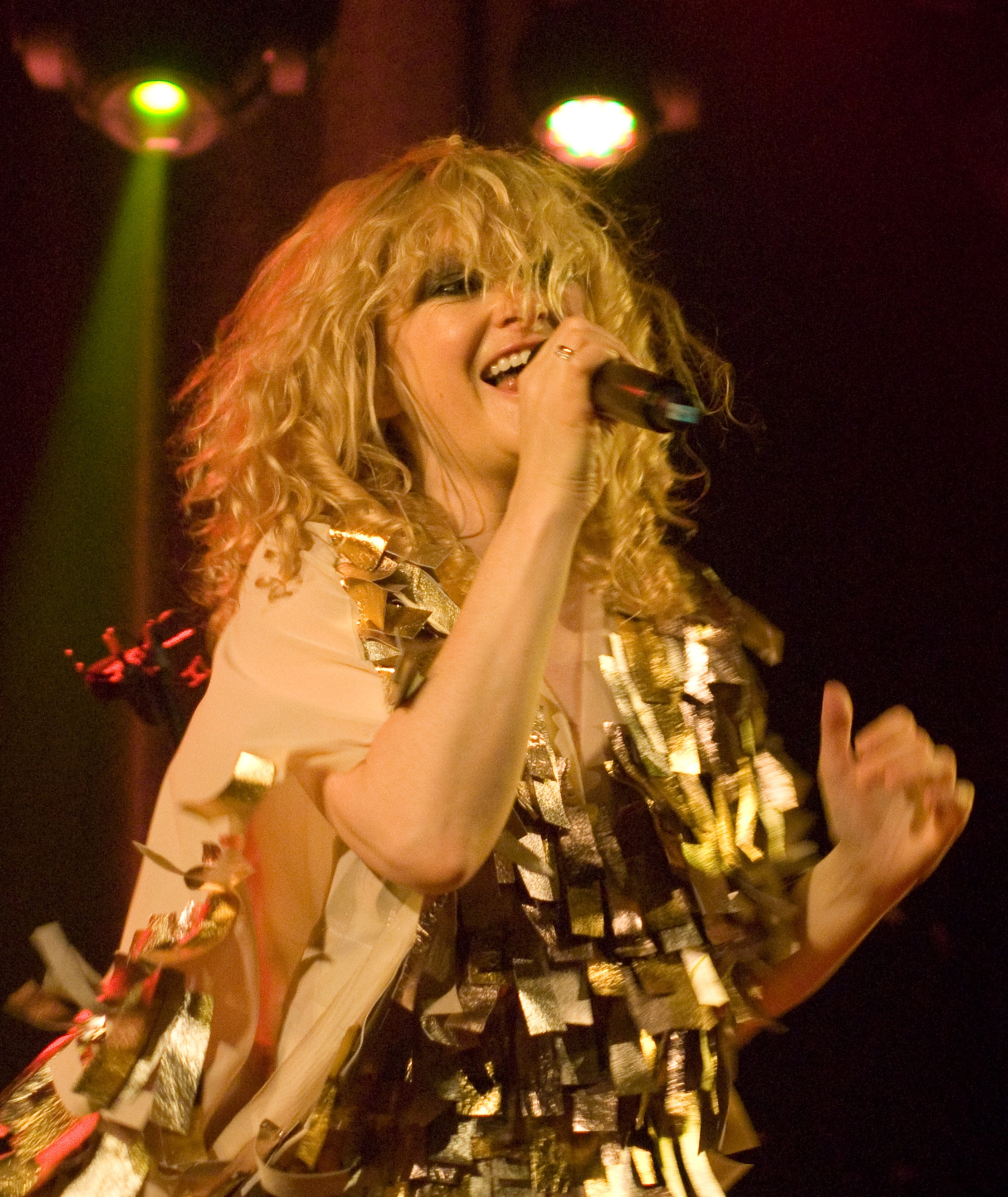 Goldfrapp Oxford 7th June 2010